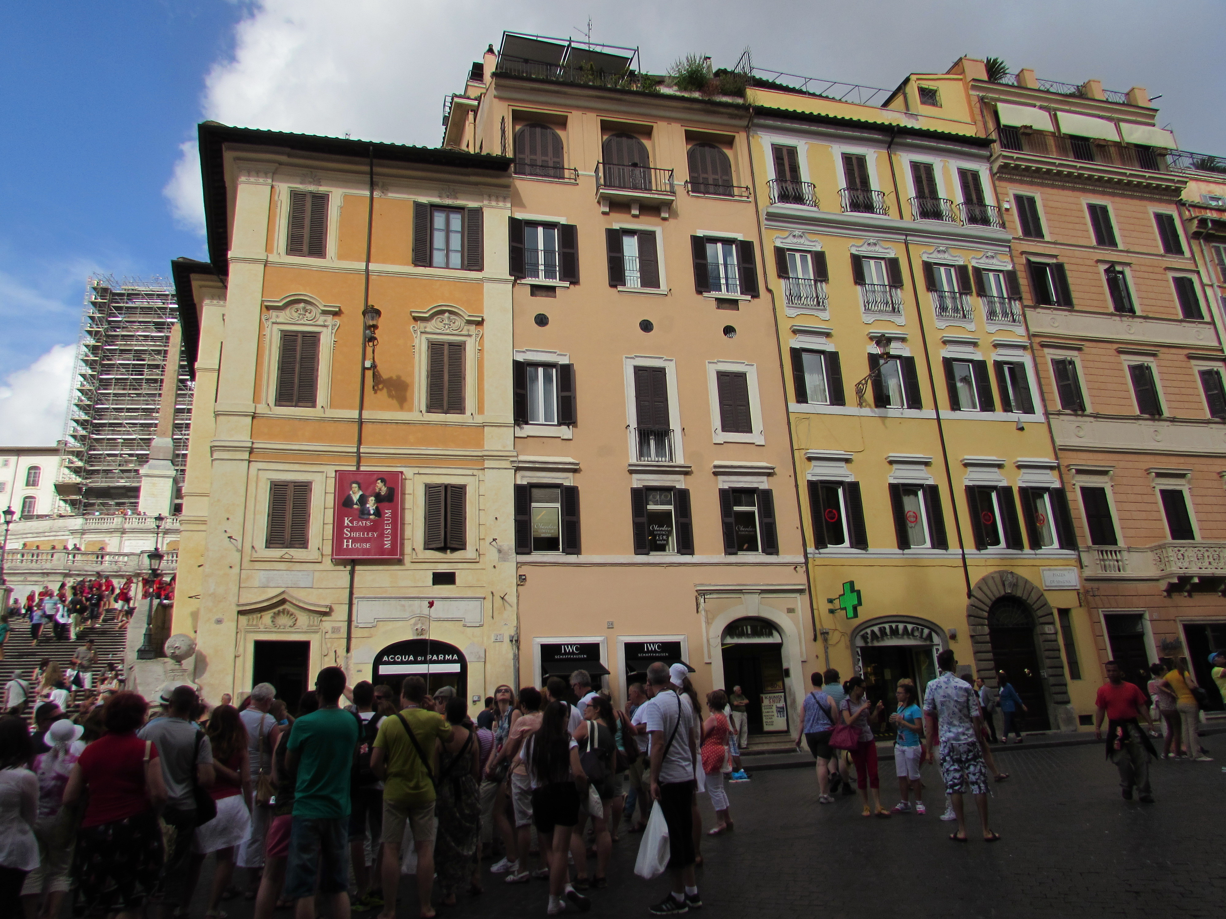 Piazza di Spagna (Rome)